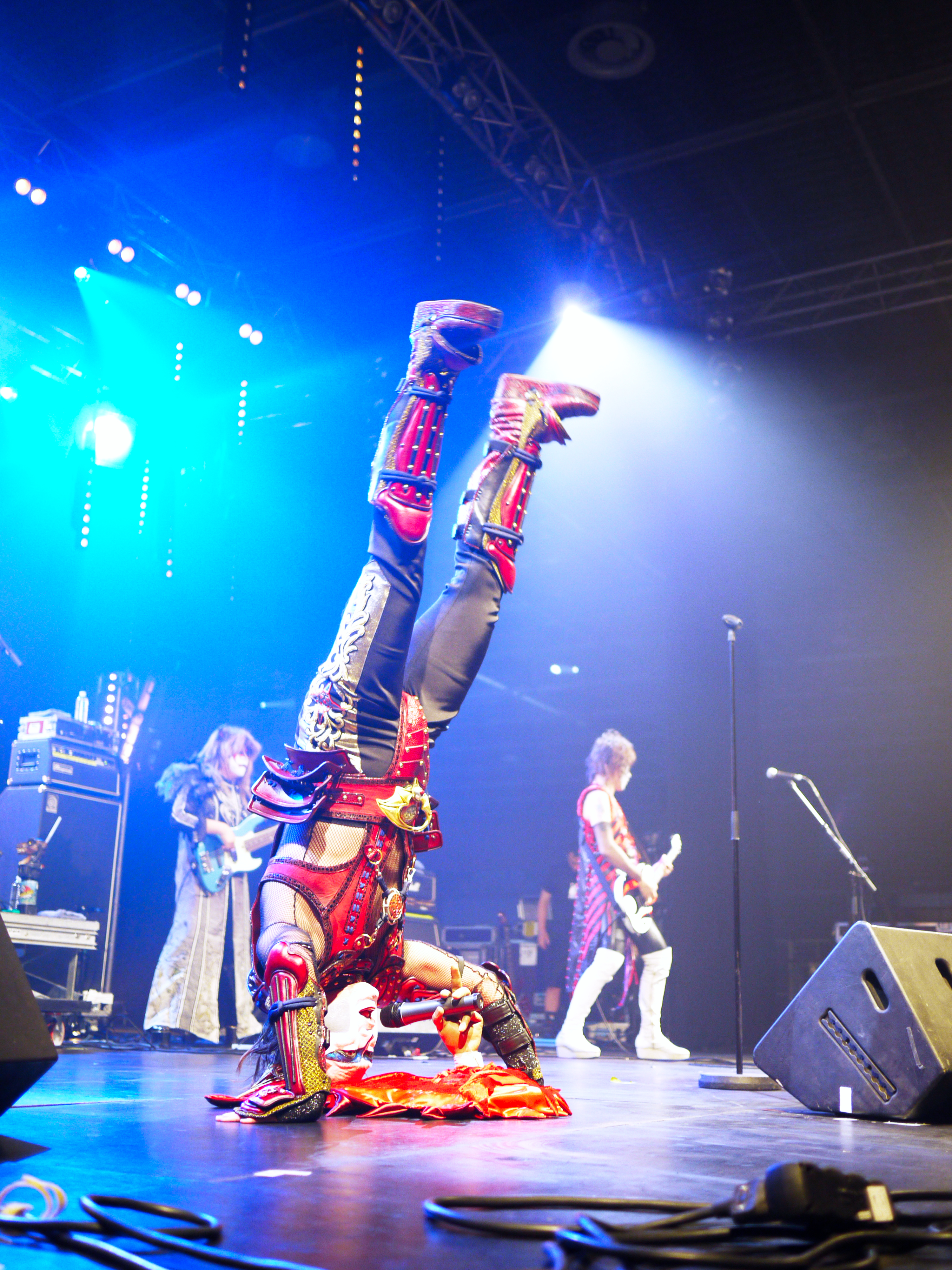 Japan Expo Festival, 11th impact